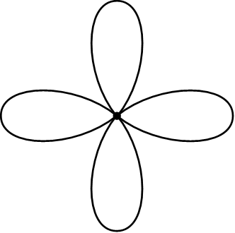 A rose with four leaves.